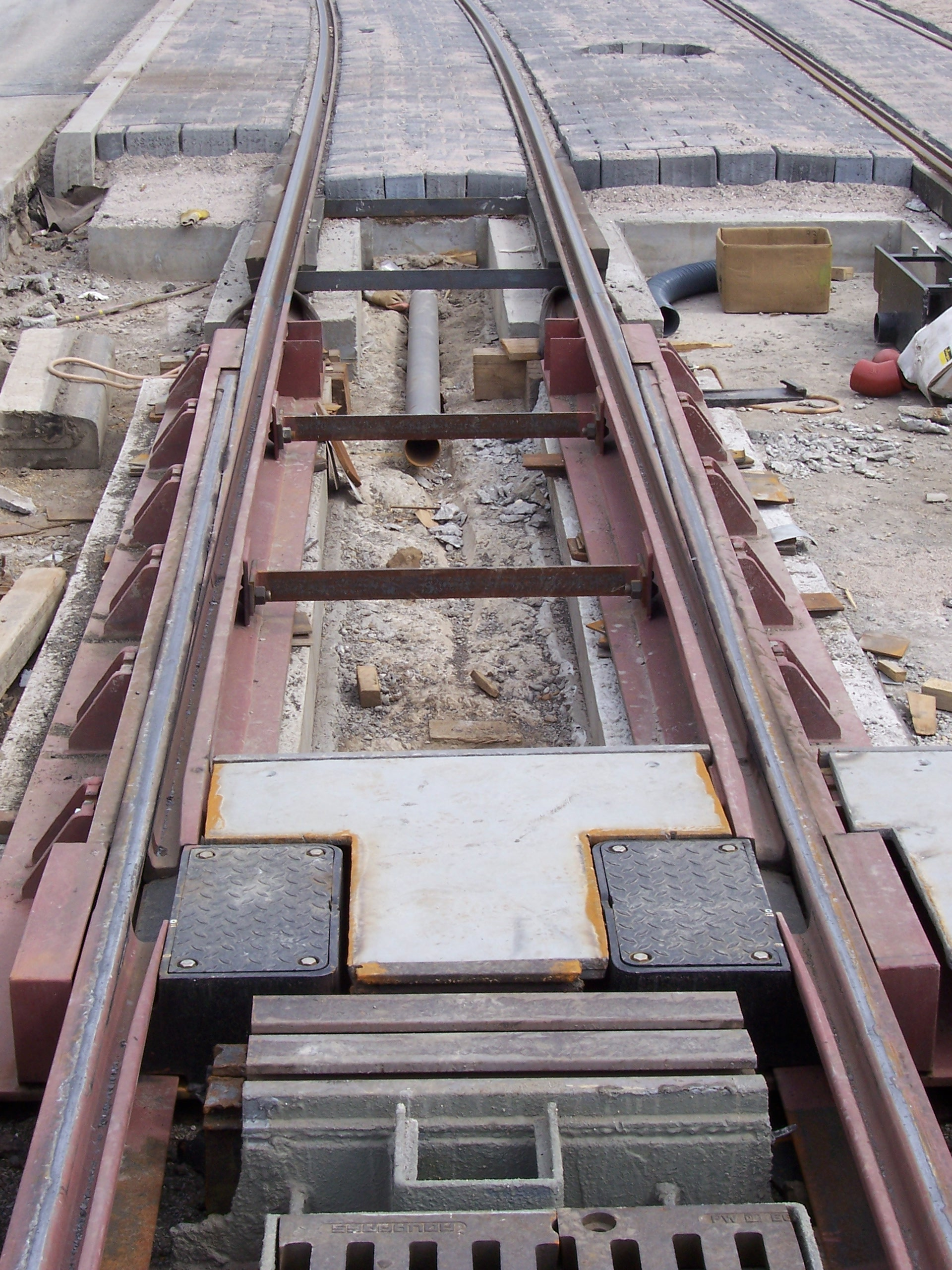 Special railroad (actually tram track) construction at the end of a bridge allows the elongation of the rail track on the bridge. Source: Uploader's own photo. Date: 06 August 2005